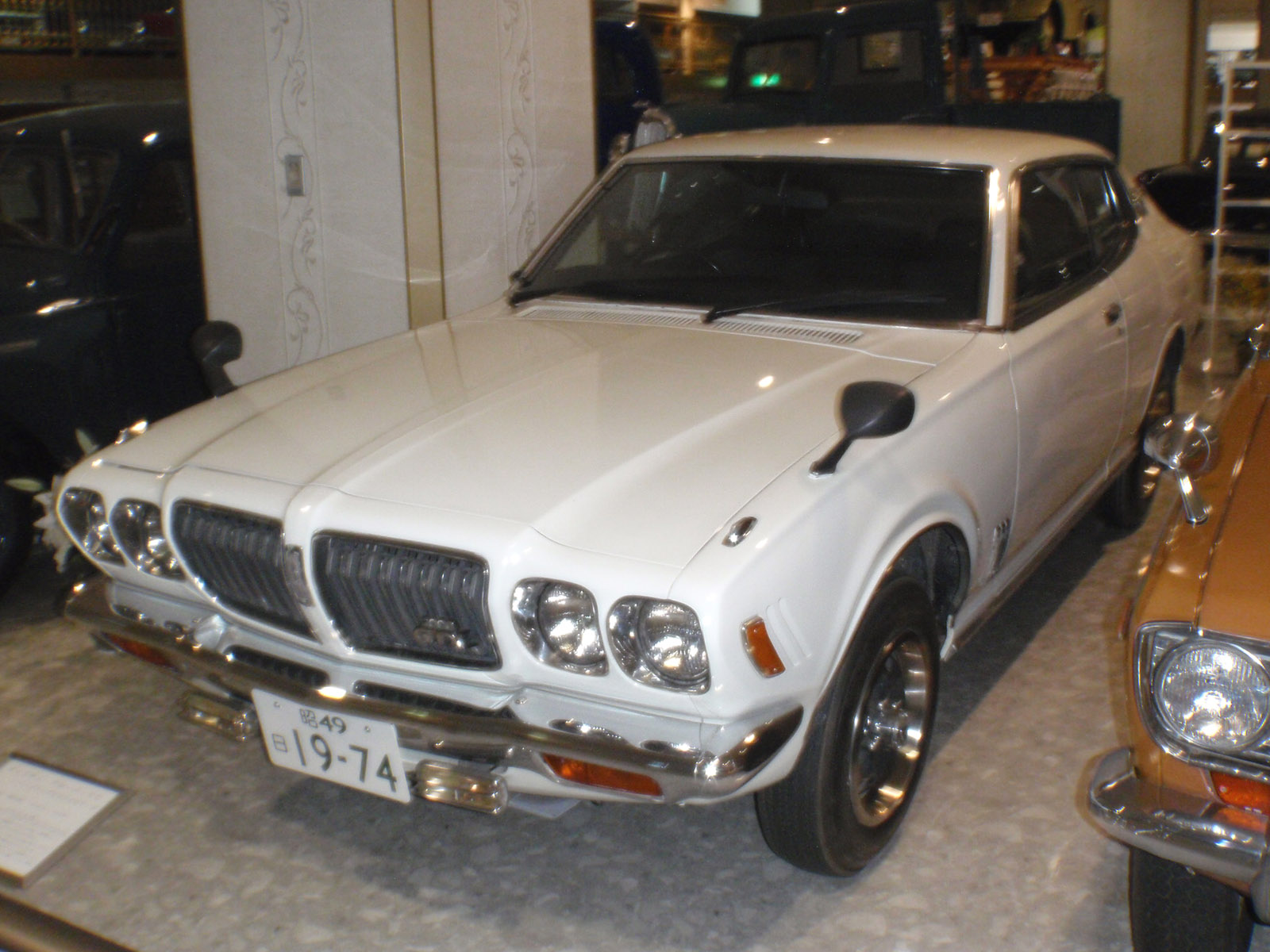 Datsun Bluebird